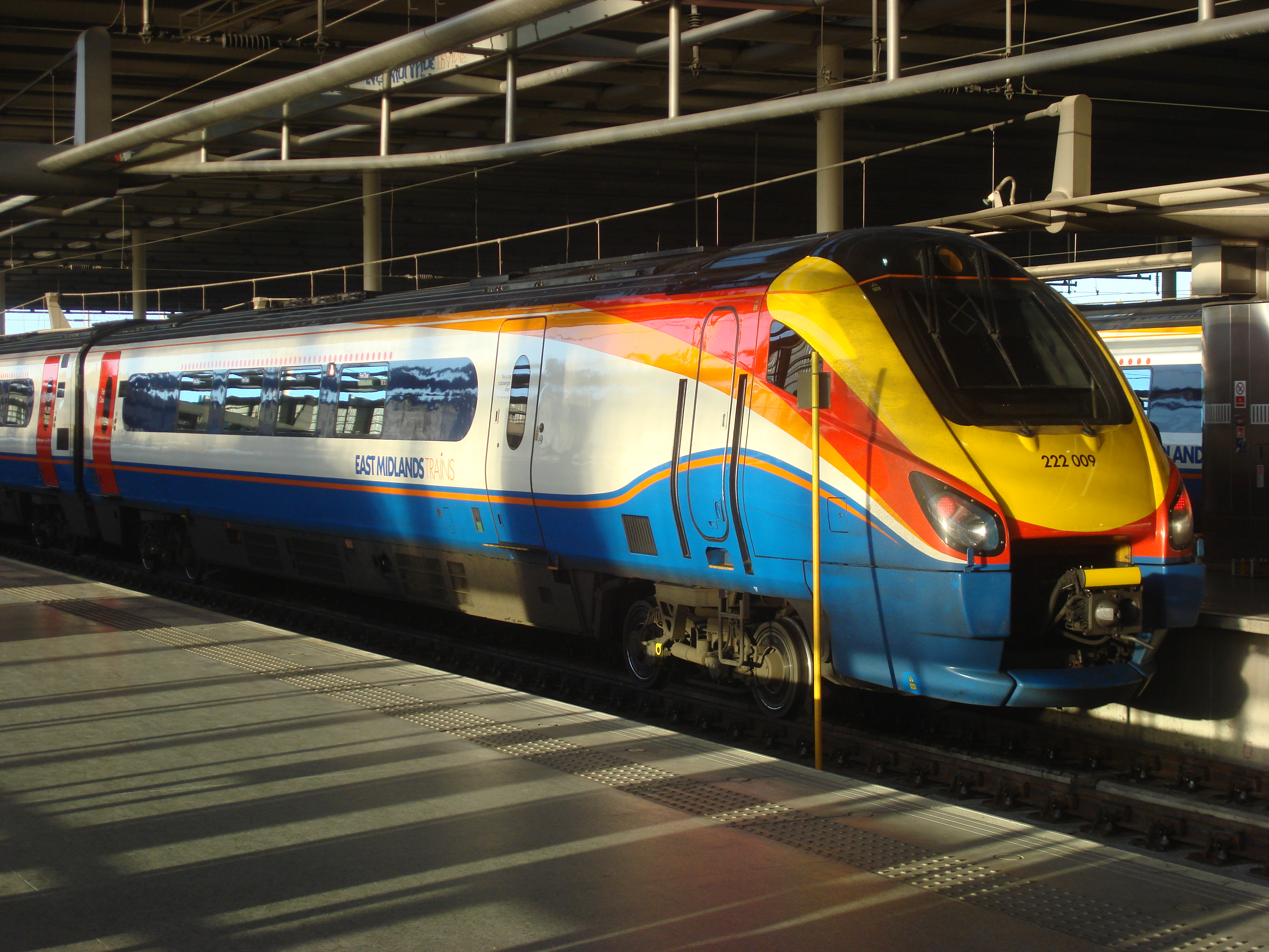 222009 at St Pancras railway station, London, UK